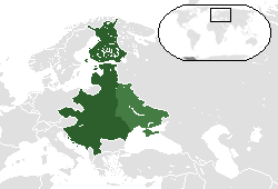 Map showing the territories that would comprise the Międzymorze federation. Lighter green denotes Ukrainian and Belarusian territories controlled by the Soviet Union after 1921.